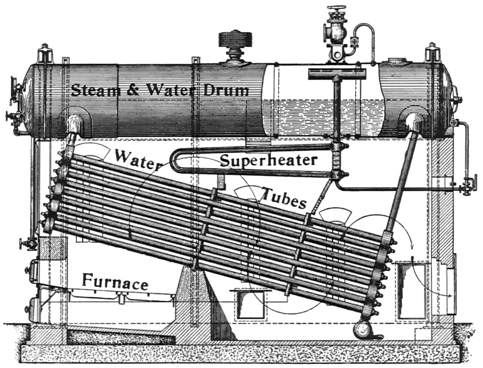 Babcock and Wilcox boiler, section (Heat Engines, 1913).jpg